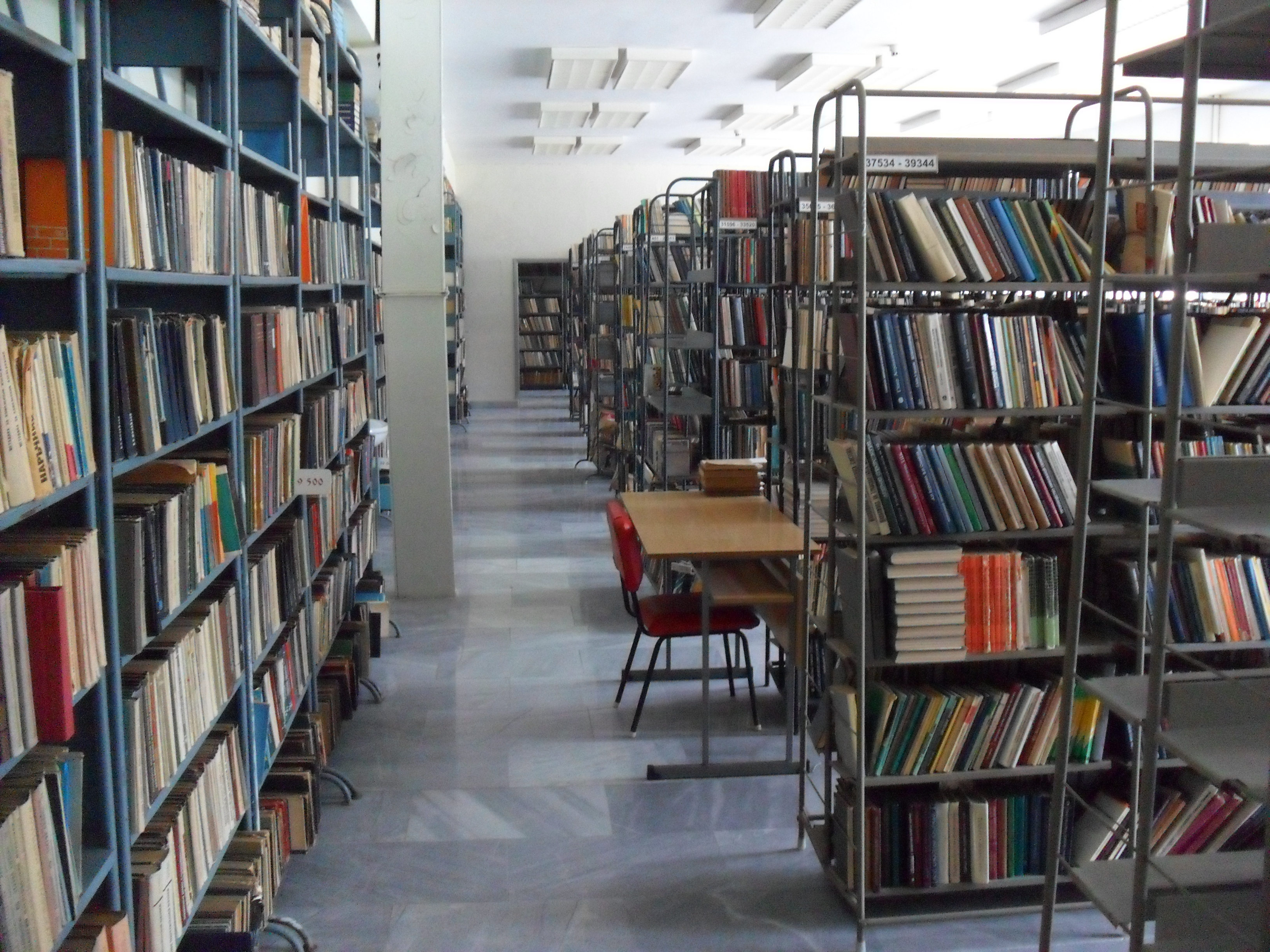 Science books and articles in the library